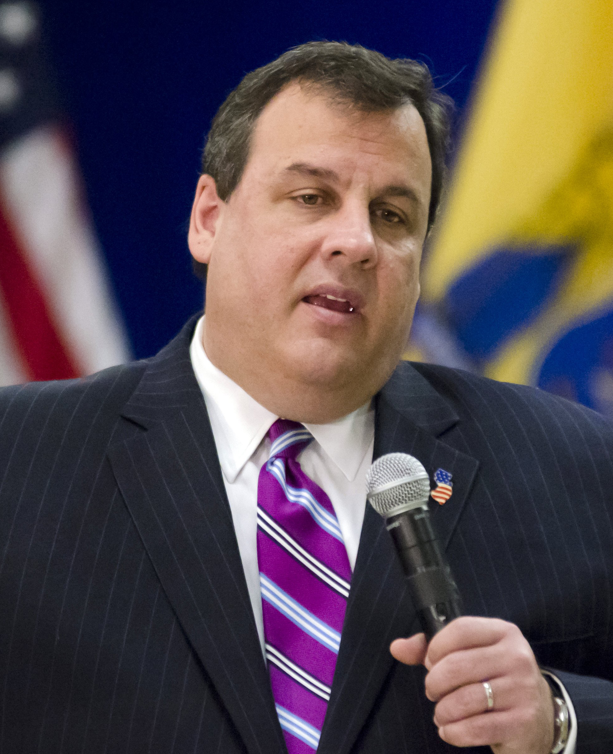 Governor of New Jersey Chris Christie at a town hall in Hillsborough, NJ 3/2/11